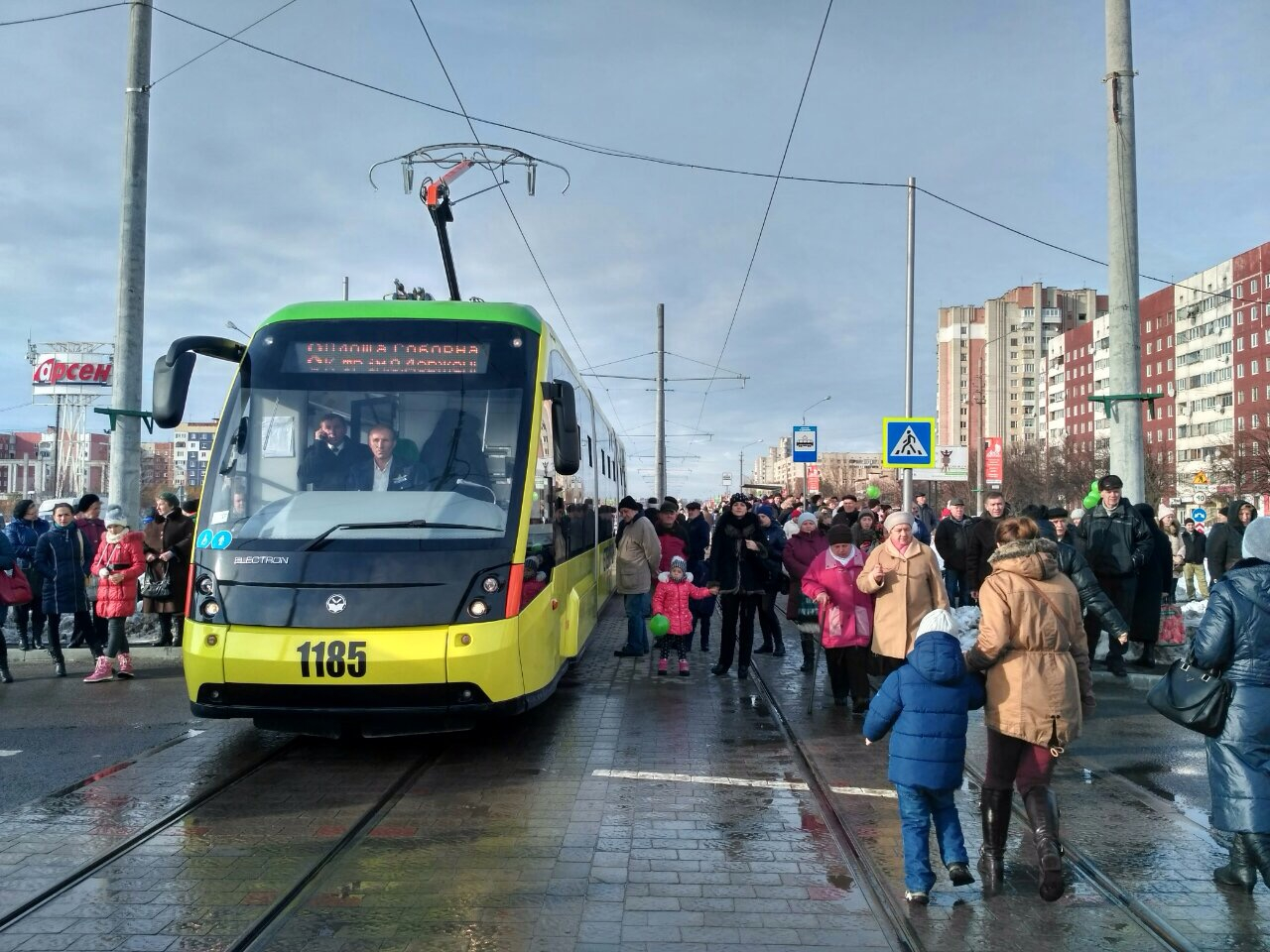 Opening ceremony of a new tram line to Sykhiv (Lviv, Ukraine).